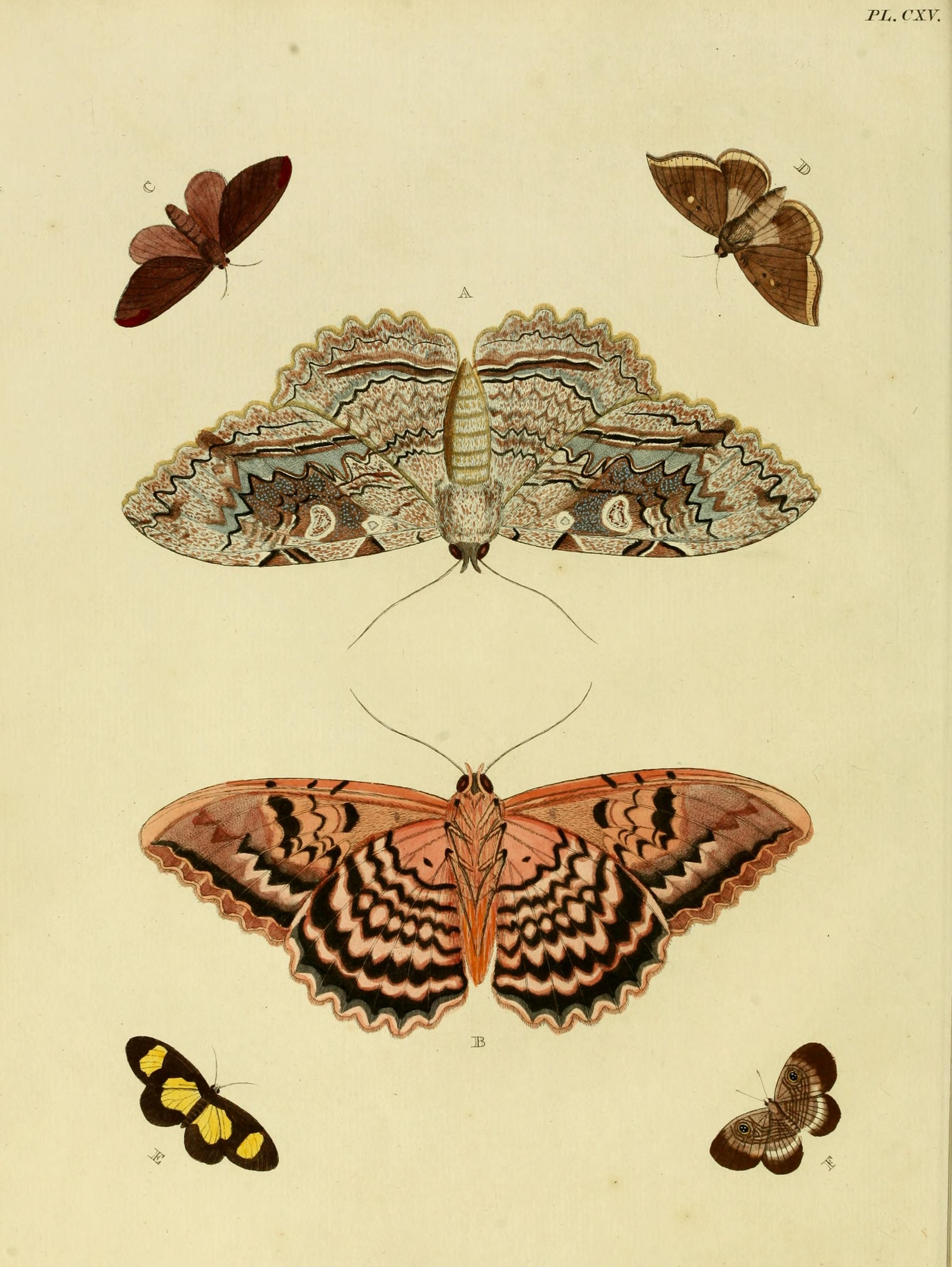 Plate CXV A, B: "(Phalaena) Zenobia" ( = Thysania zenobia, iconotype?), see Funet C: "(Phalaena) Modesta". Unidentified. Same sp. name used in volume 3 plate 272 fig. C and D (Phalaena Modesta or Modestia), description and plate. See Butterflies and Moths of the World, NHM D: "(Sphinx) Pritanis" ( = Pseudophisma pritanis, iconotype?), see NHM and Home of Ichneumonoidea E: "(Phalaena) Osiris" ( = Cyllopoda osiris, iconotype?), see Funet F: "(Papilio) Osinia" ( = Mesosemia philocles philocles, see Funet